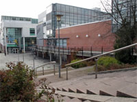 Myyrmäki library in Vantaa, a view from the railway station.